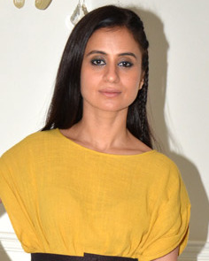 Rasika Dugal at the special screening of the web series Mirzapur